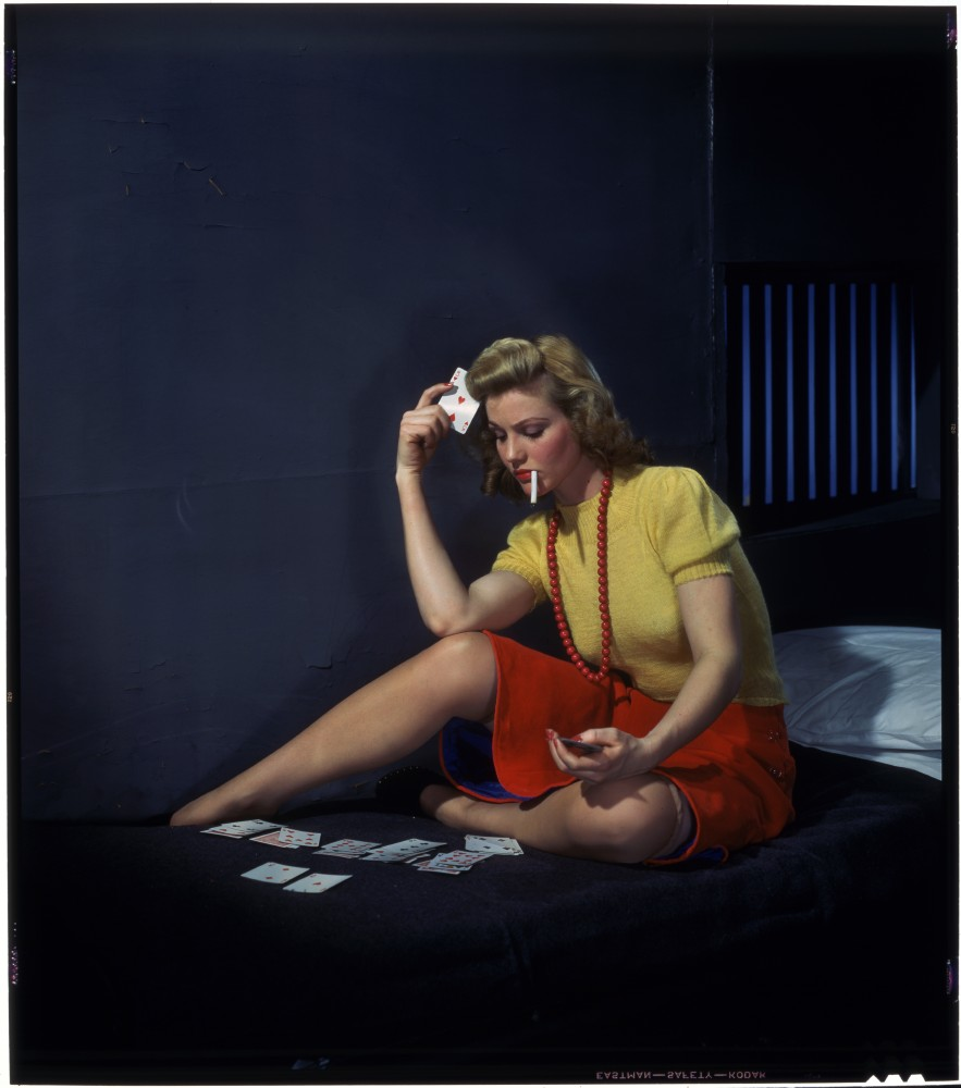 Accession Number: 1983:0567:0151 Maker: Nickolas Muray (American 1892-1965) Title: Woman in cell, playing solitaire Date: ca. 1950 Medium: transparency, chromogenic development (Kodachrome) process Dimensions: 22.9 x 19.4 cm. George Eastman House Collection General – information about the George Eastman House Photography Collection is available at For information on obtaining reproductions go to